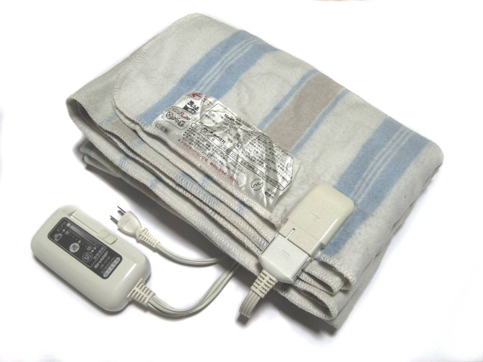 Sharp HB-C11S (1992) is an electric blanket.